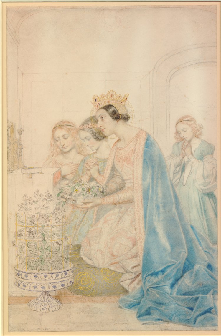 Saint Amelia, Queen of Hungary, peliminary study by Paul Delaroche.